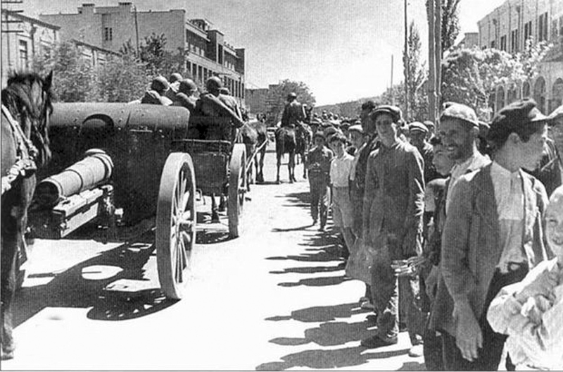 Mounted artillery units of the Red Army on the streets of Tabriz. The Iranian operation, September 17, 1941.